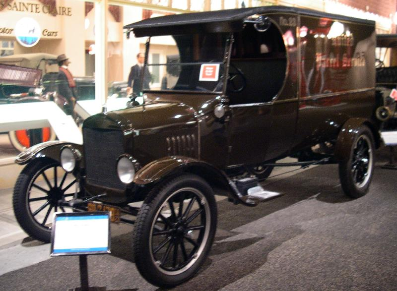 1923 Ford Model T UPS truck From the Petersen Automotive Museum, Los Angeles, CA